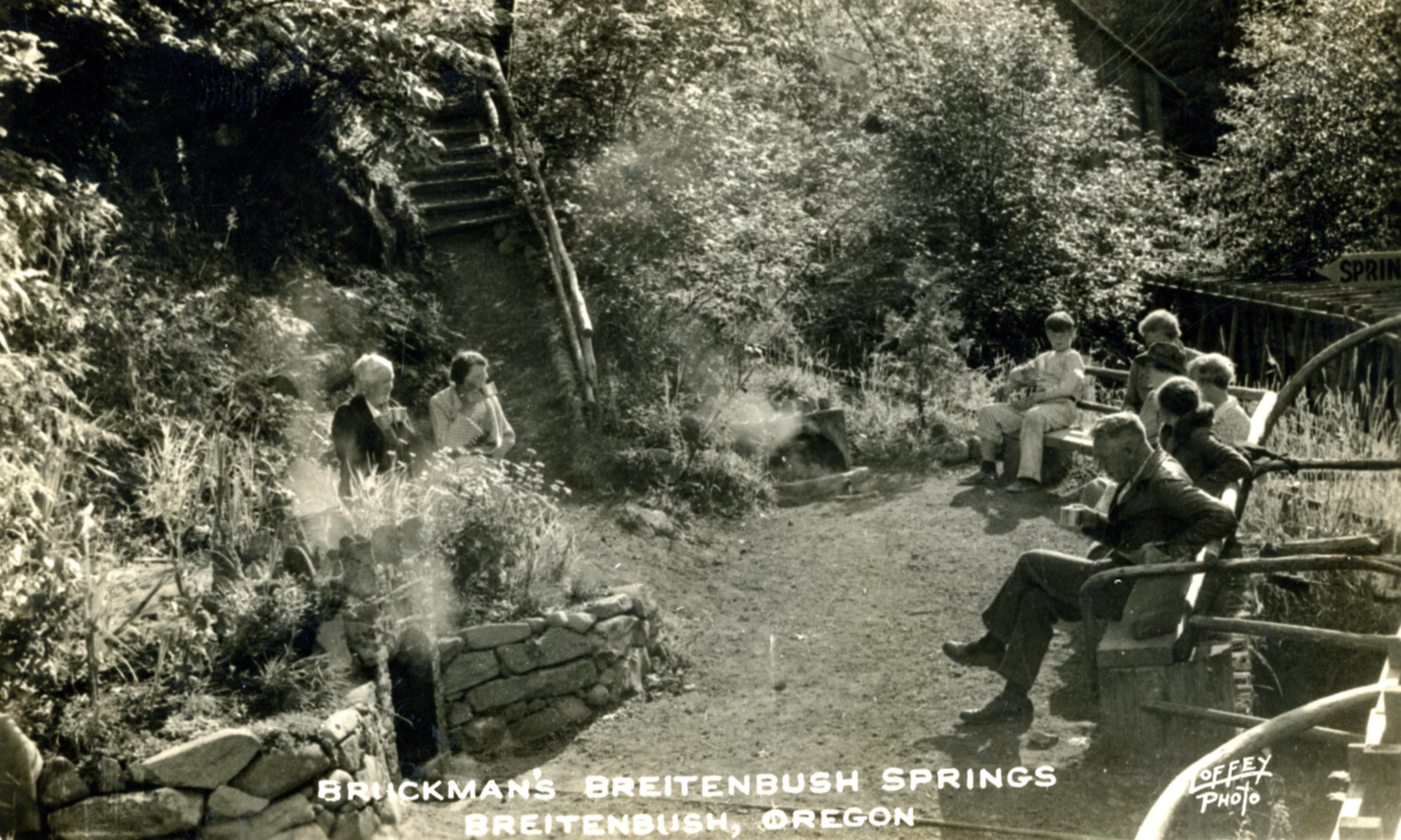 Original Collection: Gerald W. Williams Collection, 1855-2007 Item Number: WilliamsG: SVbreitenbushpeoplesitting You can find this image by searching for the item number by clicking here. Want more? You can find more digital resources online. We're happy for you to share this digital image within the spirit of The Commons; however, certain restrictions on high quality reproductions of the original physical version may apply. To read more about what “no known restrictions” means, please visit the Special Collections & Archives website, or contact staff at the OSU Special Collections & Archives Research Center for details.